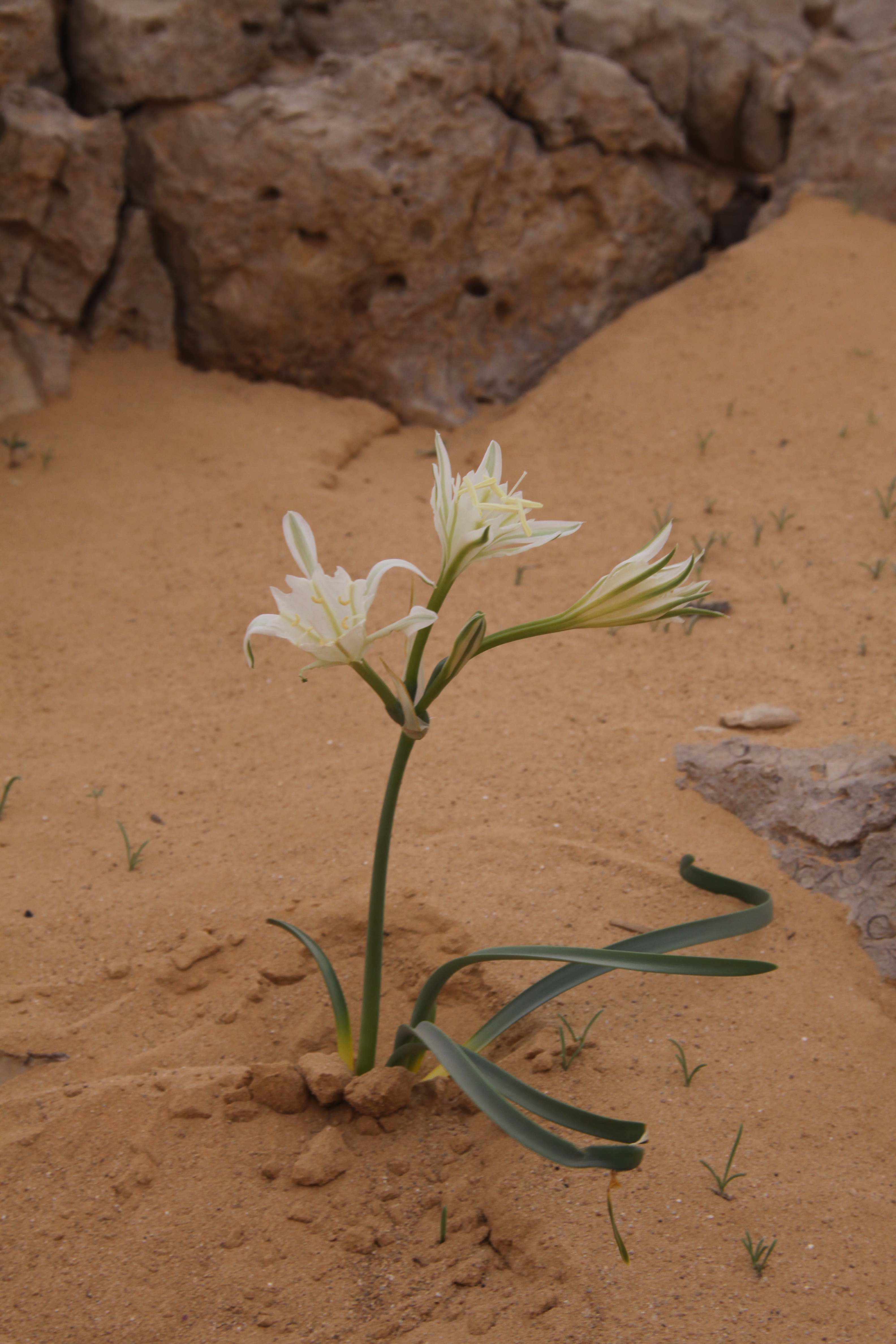 Pancratium sickenbergeri,in the sands of Israeli Negev.